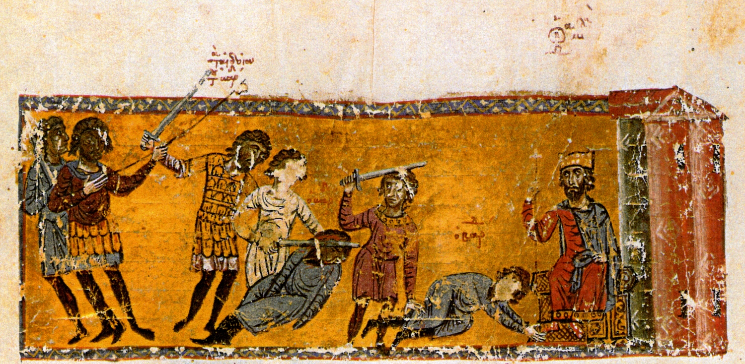 Skyllitzes Matritensis, fol. 80ra, detail. Miniature: The murder of Bardas at the feet of the Emperor Michael III in 865-866. Labels: τὰ αἰδοῖα τοῦ Βάρδα (left), ὁ Βάρδας - ὁ Βάρδας (centrally), ὁ βασιλεὺς Μιχαὴλ (right) References: Ioannis Scylitzae Synopsis Historiarum. Editio Princeps. Rec. Ioannes Thurn, p. 112, in: Corpus Fontium Historiae Byzantinae 5 Series Berolinensis, 1973 Tsamakda V.: The illustrated chronicle of Ioannes Skylitzes in Madrid, p. 122 Grabar A., Manoussacas M.: L'illustration du manuscript de Skylitzes de Madrid, p. 56 Божков А.: Миниатюри от Мадридския ръкопис на Йоан Скилица, p. 200